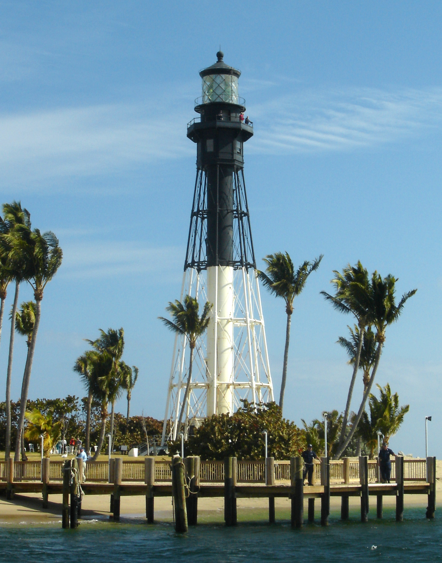 The Hillsboro Inlet Light in Hillsboro Beach, Florida, USA.